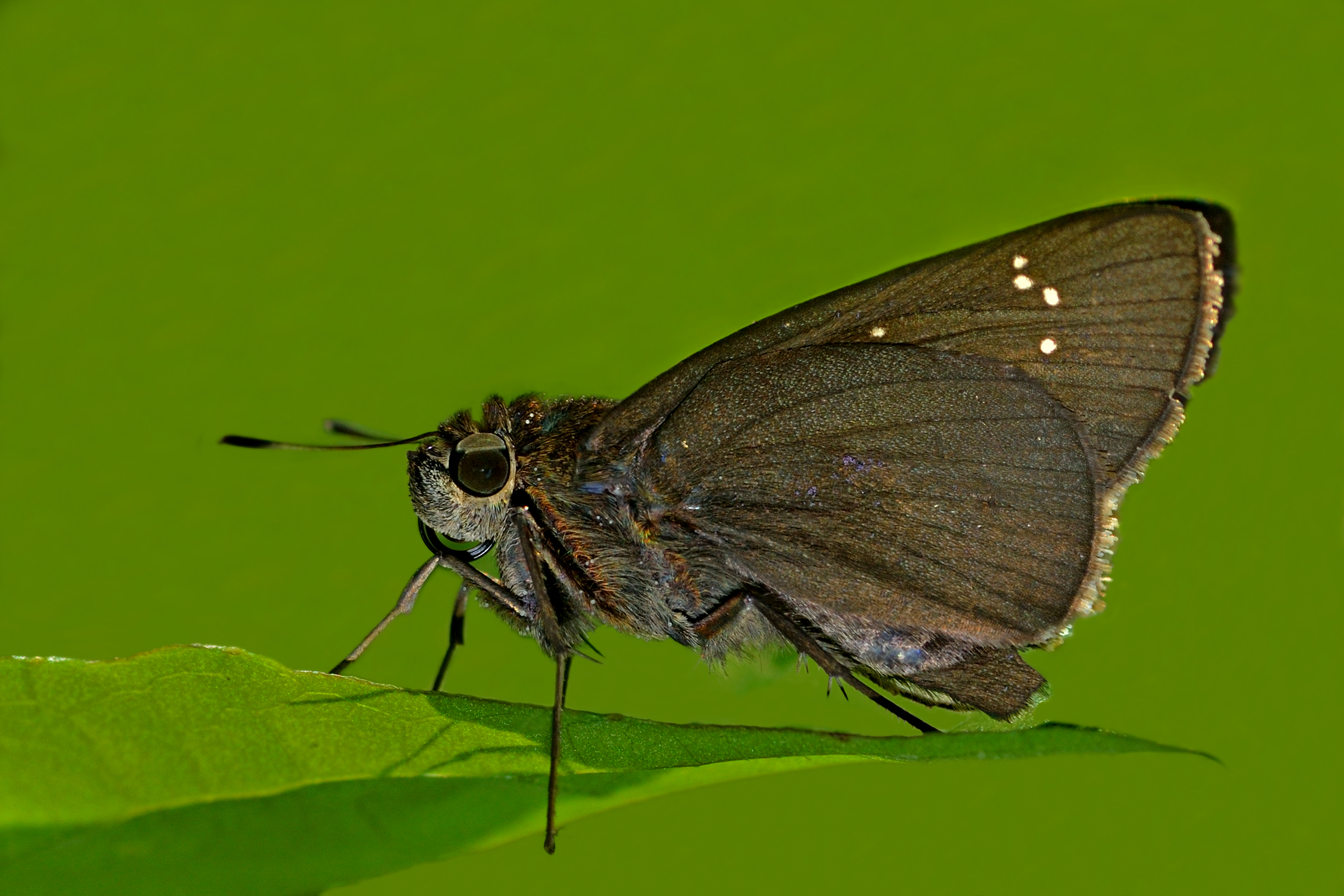 Close wing position basking of Caltoris cahira austeni Moore, 1883 - Austen's swift. অসমীয়া: ৰ'দ পুৱাই থকা অৱস্থাত পাখি বন্ধ Caltoris cahira austeni Moore, 1883 - Austen's swift পখিলা ।